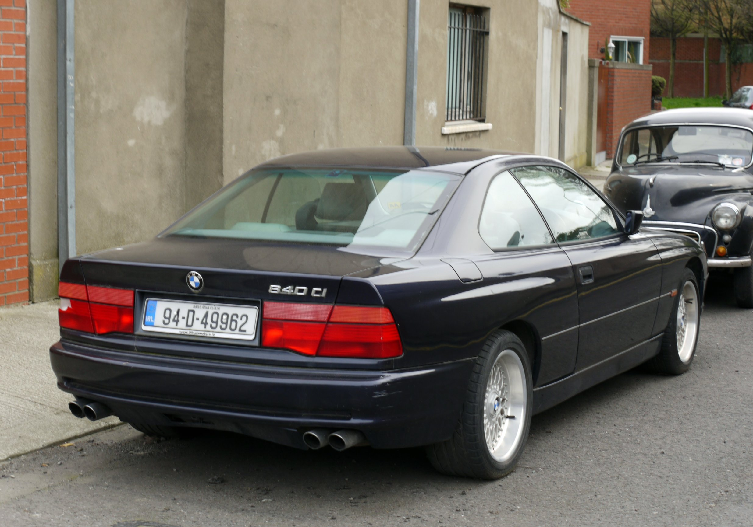 1994 BMW 840 CI (V8) - still a very beautiful car.